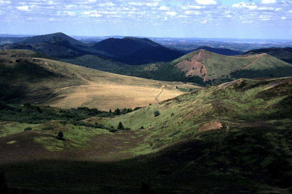 Volcanoes just north of Puy de Dôme in Auvergne, France. The volcanoes in this photo include Puy de Pariou and Puy de Cliersou. (Move the mouse pointer over the image to see annotated name tags of the volcanoes.)